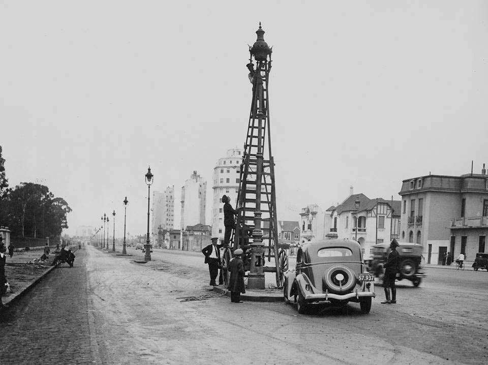 Workers in a street light post in Avenida Virrey Vértiz (current "Avenida del Libertador"), near the Golf (today "Lisandro de la Torre") railway station of Buenos Aires, Argentina.